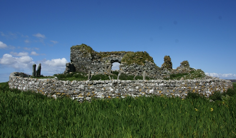 Teampull na Trionaid, North Uist, Outer Hebrides, Scotland - from the south